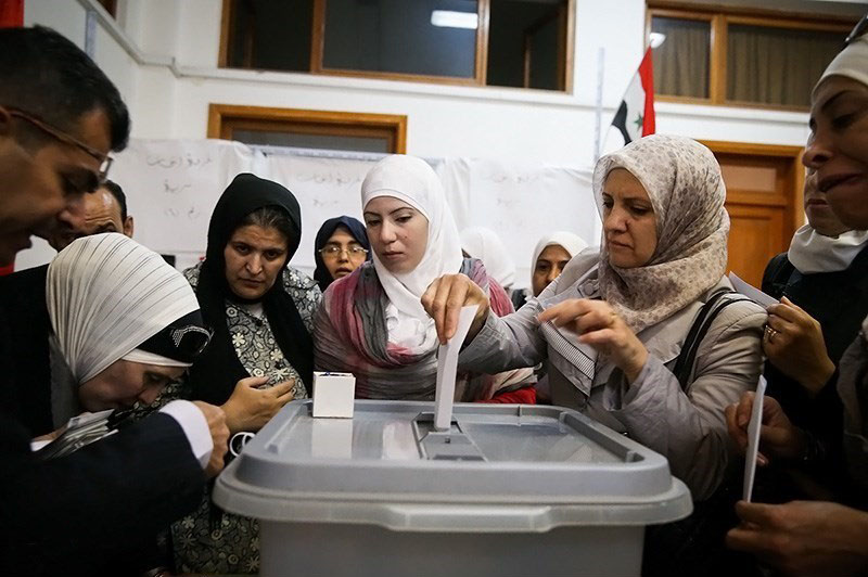 3 June 2014 presidential election in Damascus.